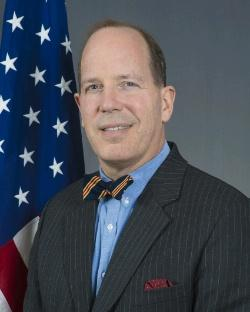 Dr. Chris Ford, Assistant Secretary for International Security and Nonproliferation